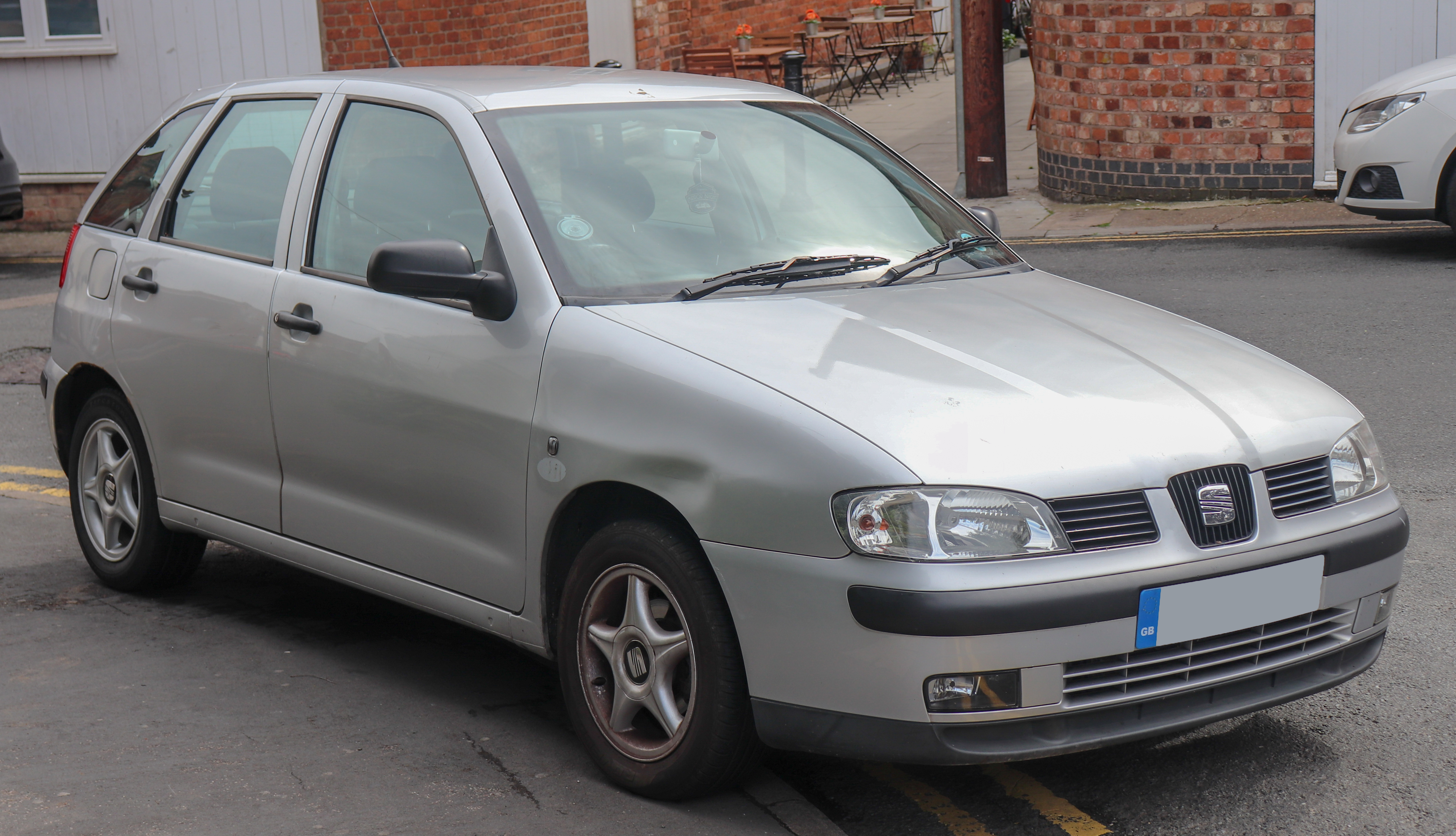 2001 SEAT Ibiza Chill 1.4 Front Taken in Leamington Spa